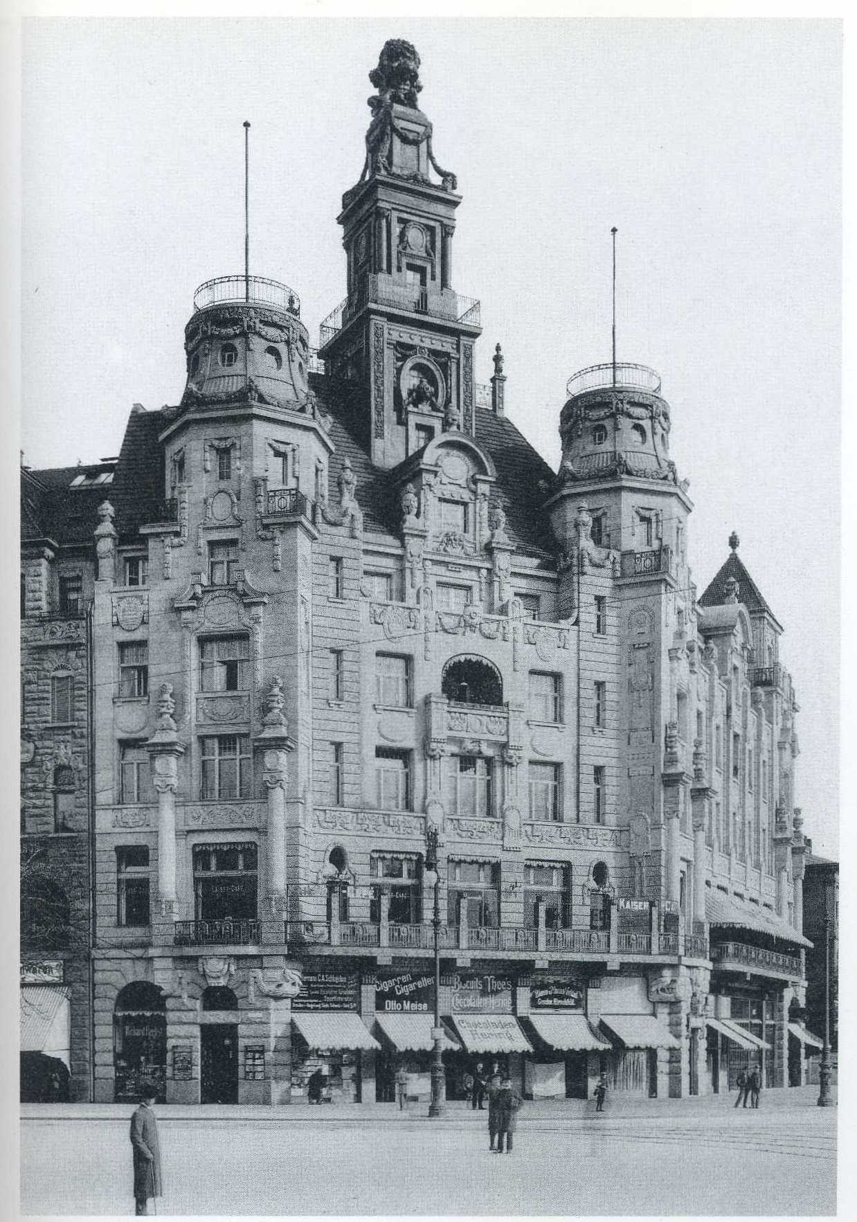 Haus Wiener Platz 1/Ecke Prager Straße Dresden-Außenfront